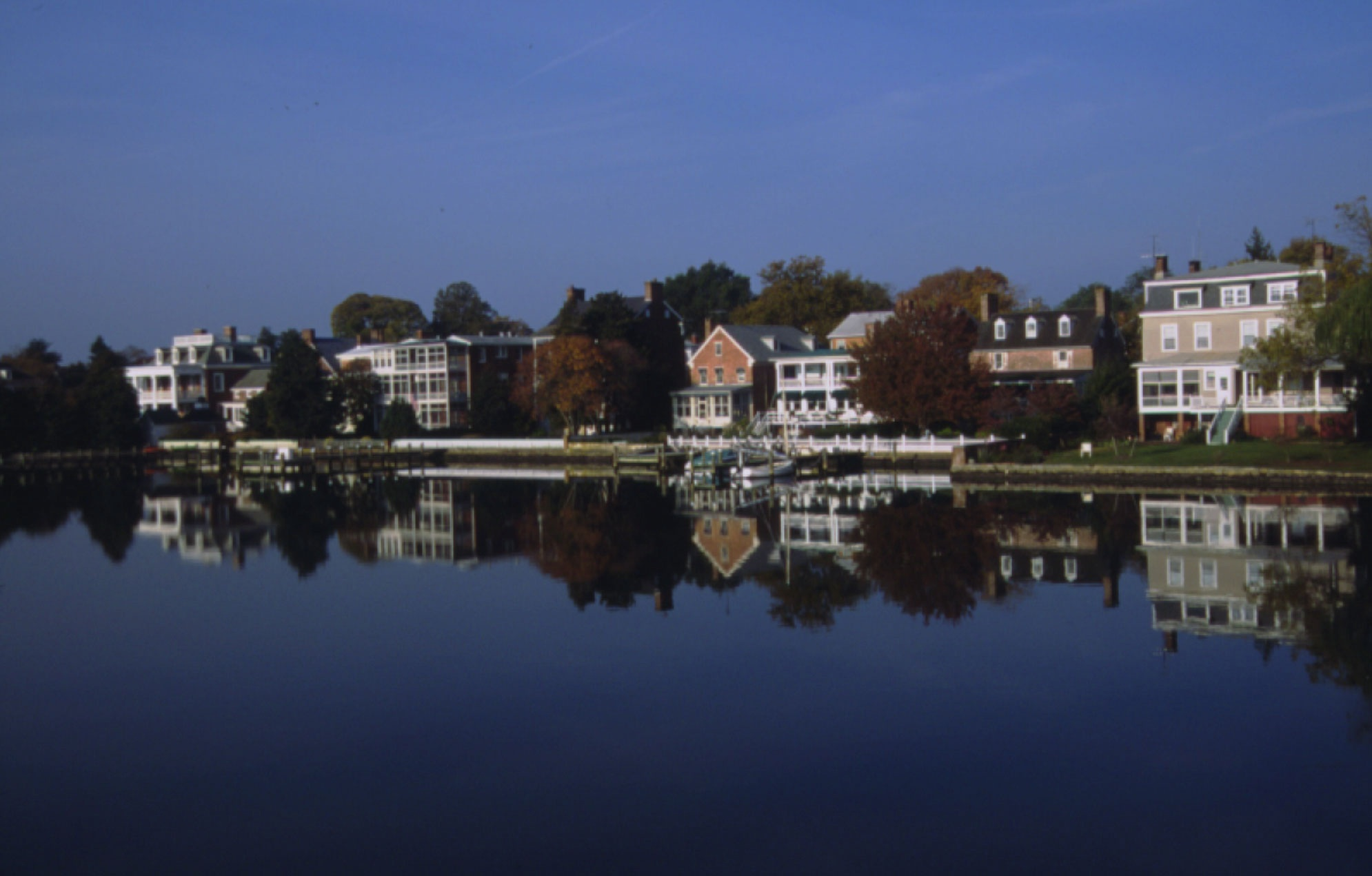 Seen from the Chester River, a partial view of the historic, colonial era waterfront of Chestertown, Maryland, United States.